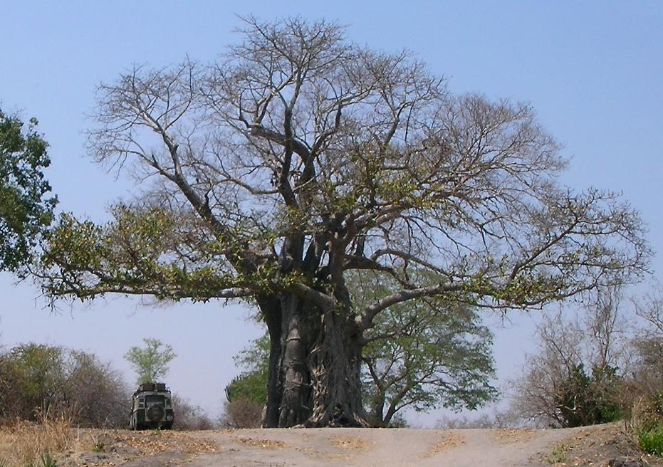 looking east towards the "Tolkein Tree" in Liwonde National Park, Malawi. Location from Garmin 60CSx handheld GPS; altimeter 482 meters